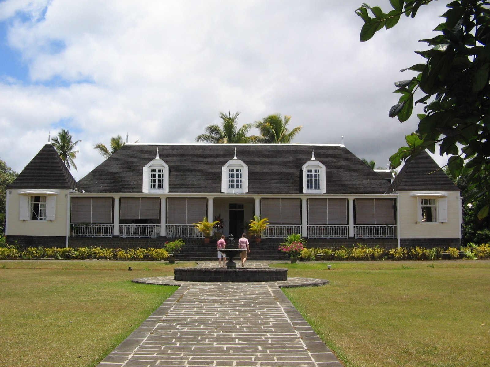 House of Saint-Aubin (Mauritius). Stage on the Route du Thé.